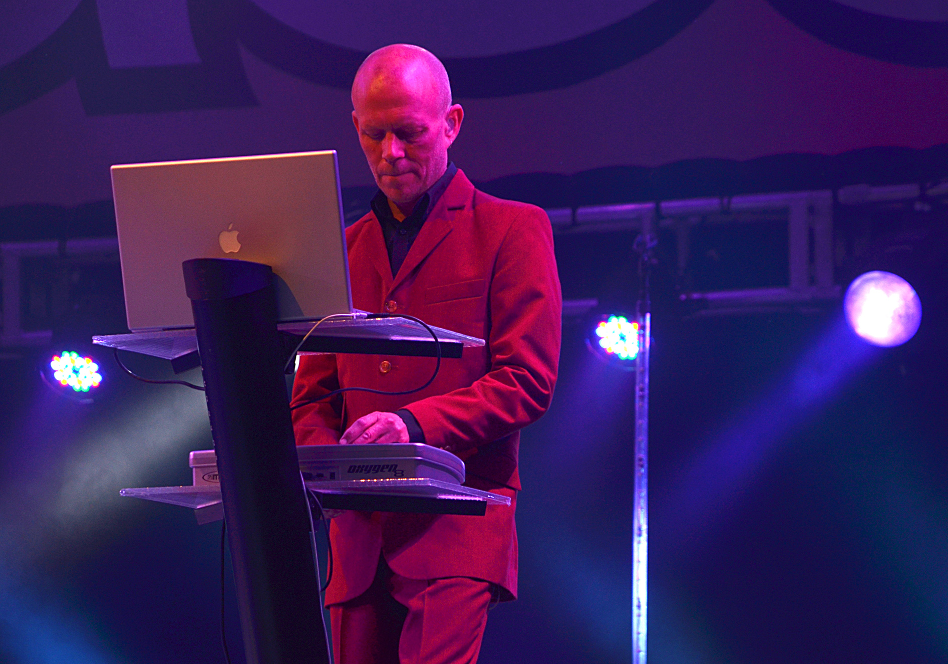 Erasure performed at Delamere Forest (near Chester), England, UK on 1 July 2011. Erasure were supported by the four-piece Foreign Office. Erasure were on form, they kicked off with "Hideaway", and just sang hit after hit, "Oh L'Amour", "Sometimes", "Victim of Love", "Love to Hate You", "Breathe", "Knocking on your Door", "Chains of Love", "Ship of Fools" and many more.